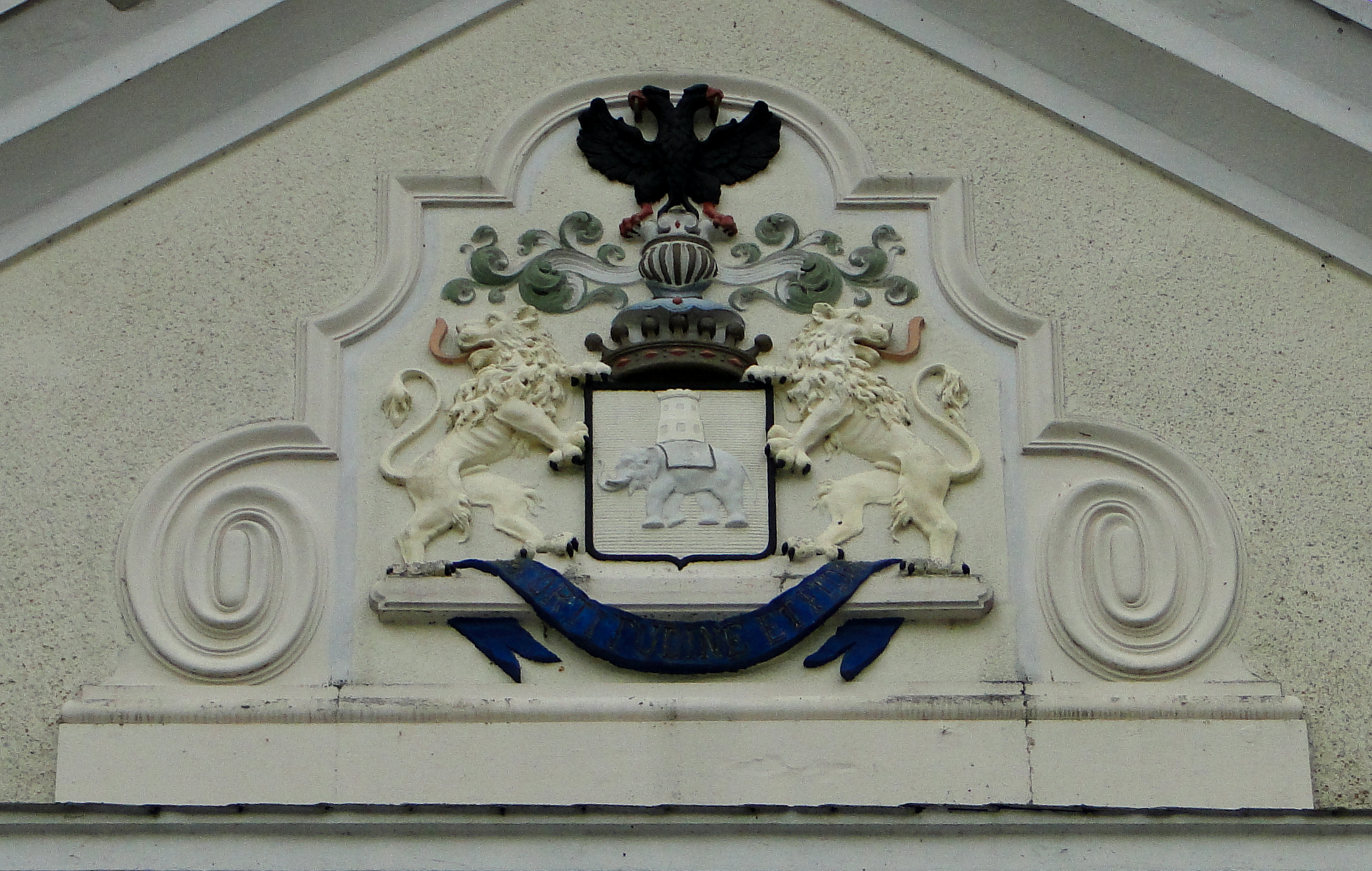 Coat of arms at the former manor house in Boek, district Mecklenburgische Seenplatte, Mecklenburg-Vorpommern, Germany